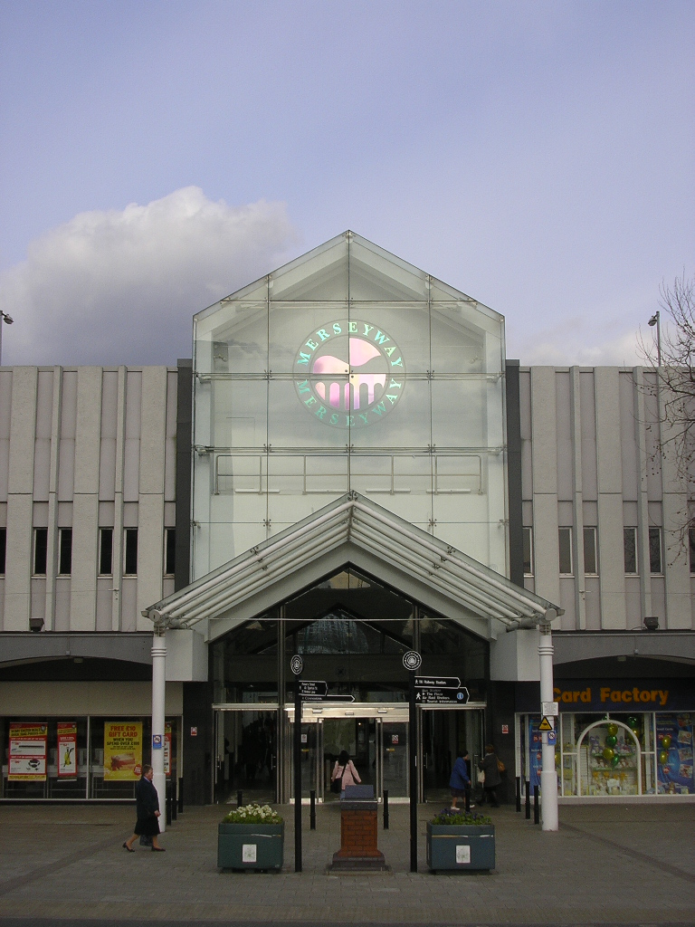 Photograph of Merseyway Shopping Centre in Stockport, Greater Manchester, England.